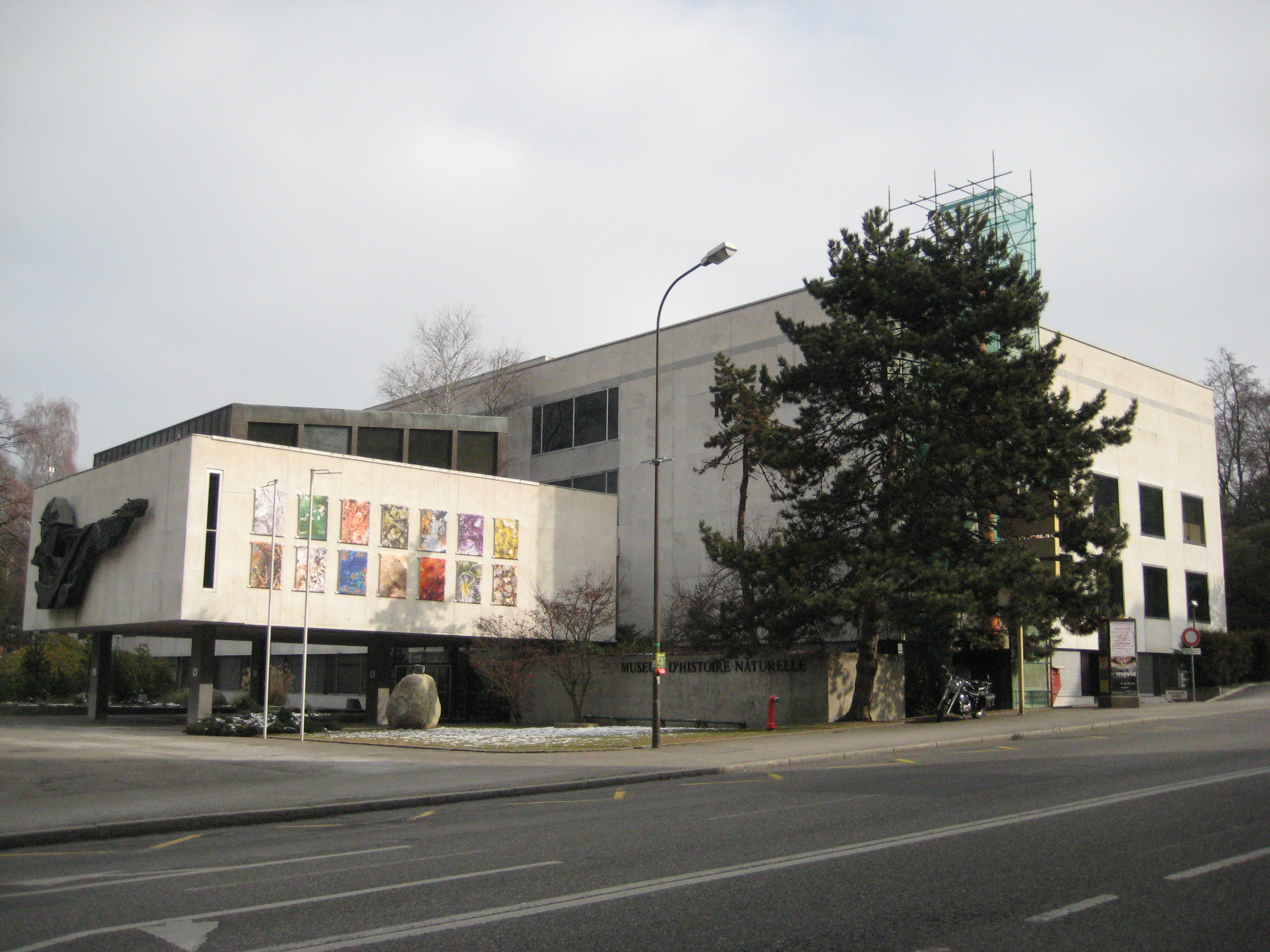 Natural History Museum of Geneva